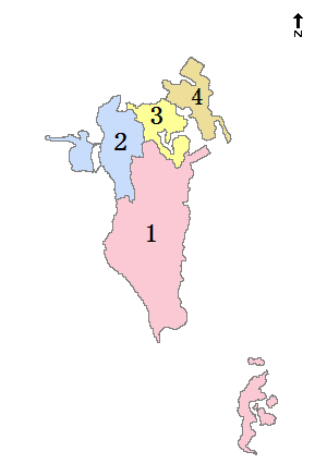 Governorates of Bahrain 2014